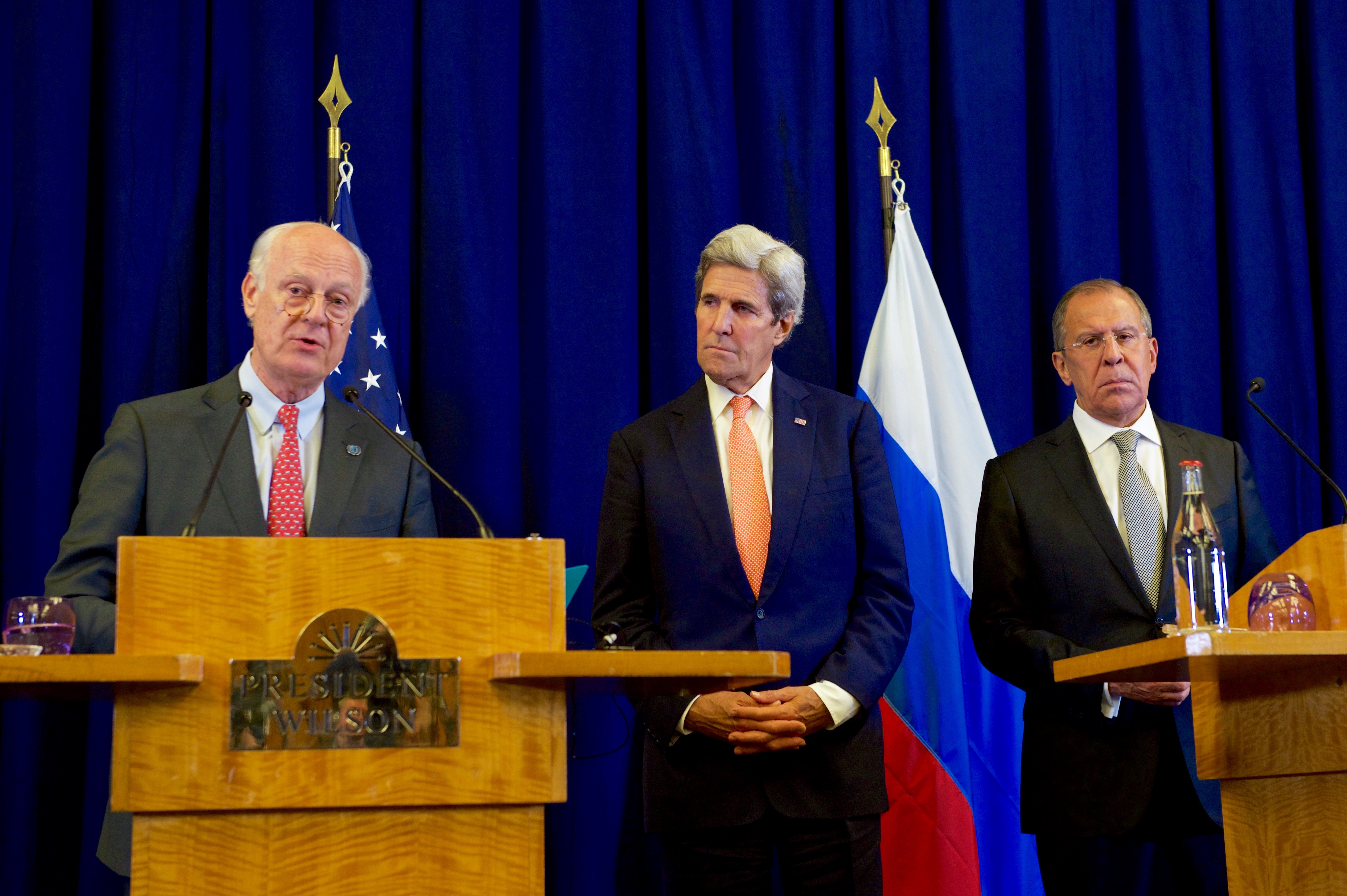 United Nations Special Envoy for Syria Staffan de Mistura, joined by U.S. Secretary of State John Kerry and Russian Foreign Minister Sergey Lavrov, addresses reporters on September 9, 2016, at the Hotel President Wilson in Geneva, Switzerland, after the United States and Russia agreed to work together to target terrorists in Syria and relieve humanitarian suffering in the war-ridden country. [State Department Photo/ Public Domain]